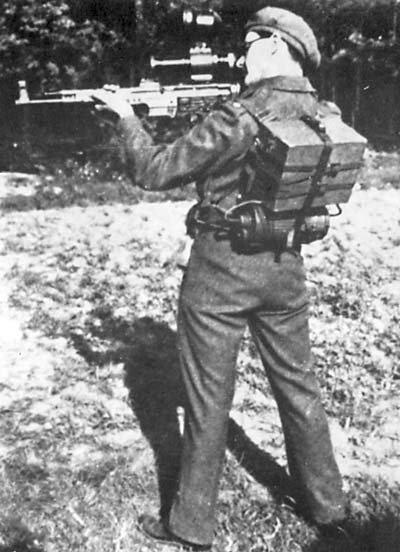 The Zielgerät 1229 "Vampir" was the first night-vision sniperscope to be developed. The first units were delivered in 1944 and saw operation beginning in early 1945 on the eastern front. This image shows the Vampir mounted on an StG 44 assault rifle, being demonstrated by a British Army soldier. Note the very large battery back that powers it, on the soldier's back. The gun is lacking a magazine.